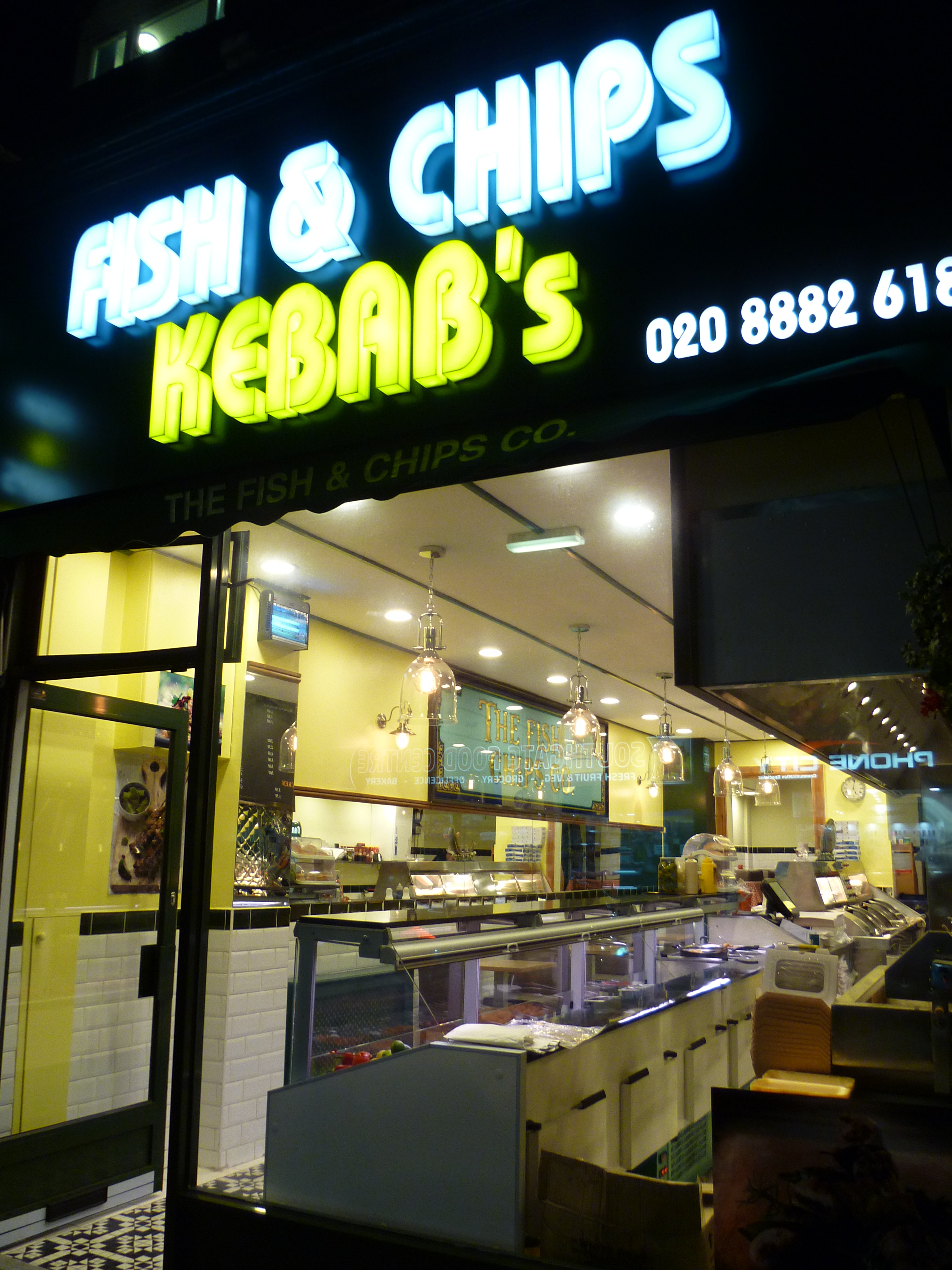 Chase Side, Southgate